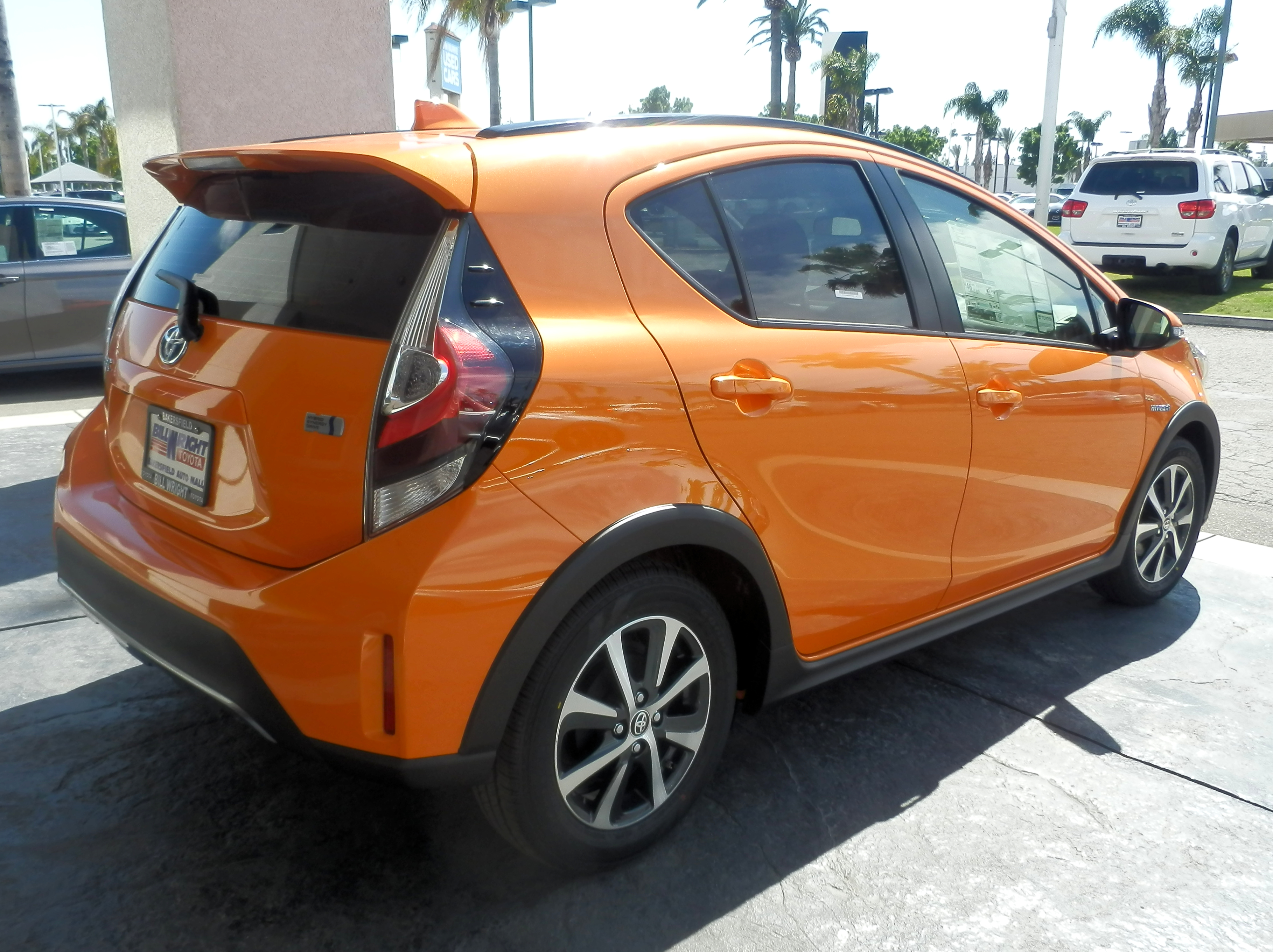 Toyota Prius c in Bakersfield